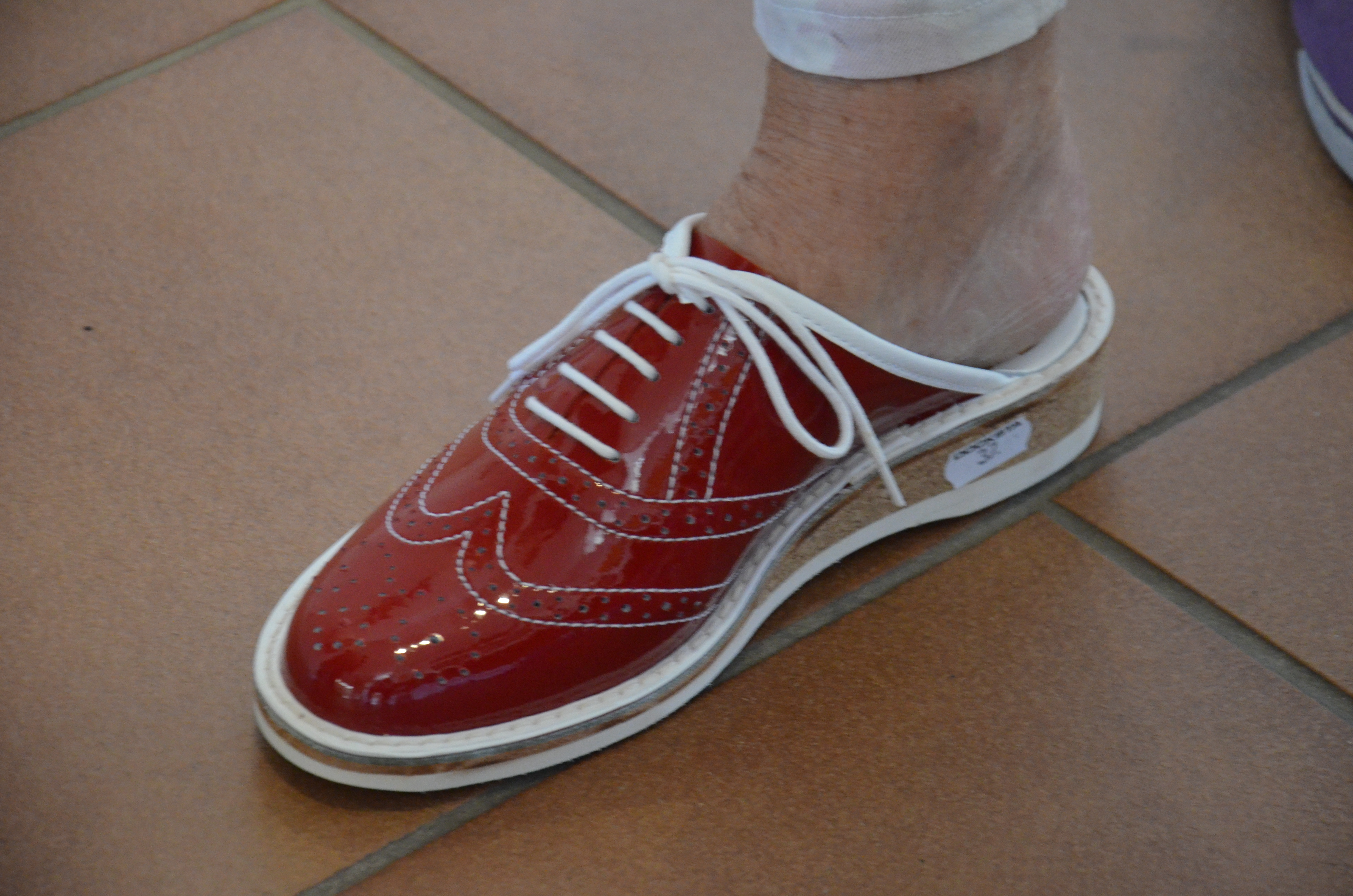 "Slippers" by Docksta Sko in Sweden, model Brogues designed by Mats Theselius